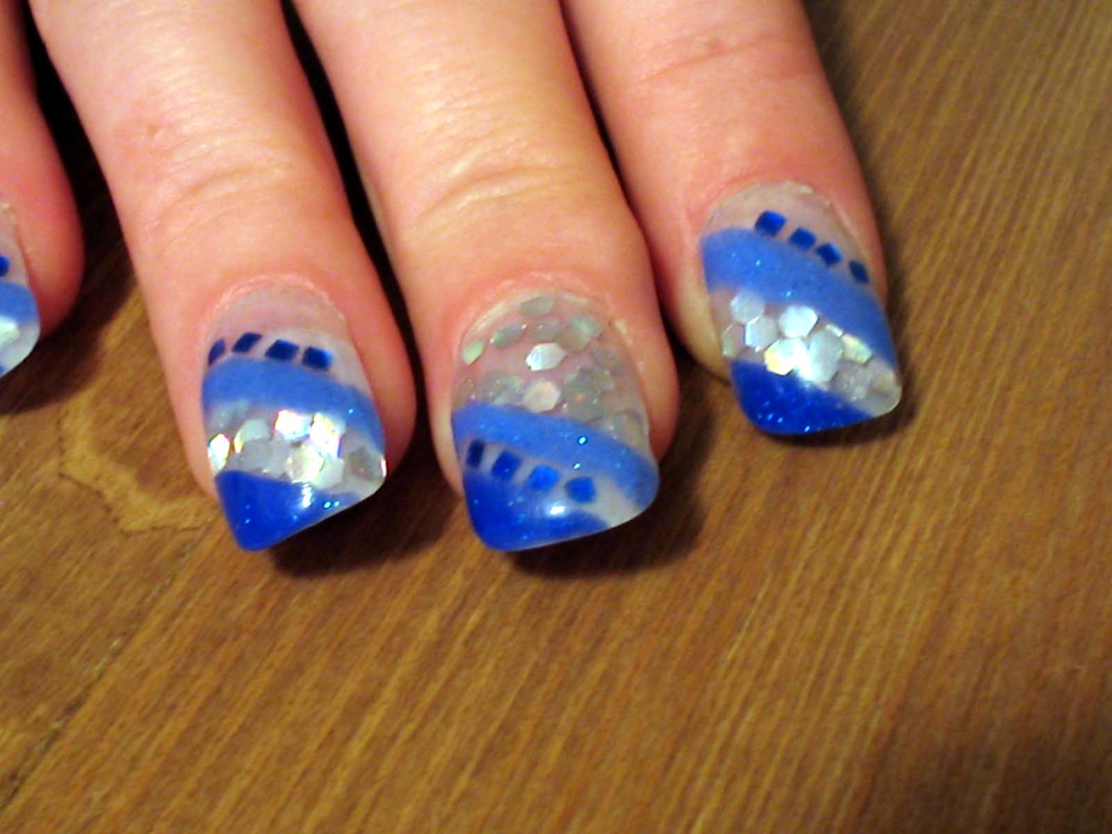 tips added and modeled, august 2005